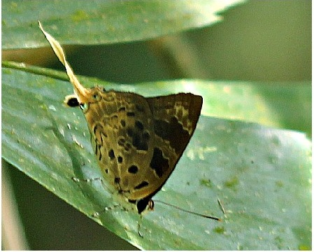 Bindahara phocides, Plane shot at Mt Harriet National Park Andamans